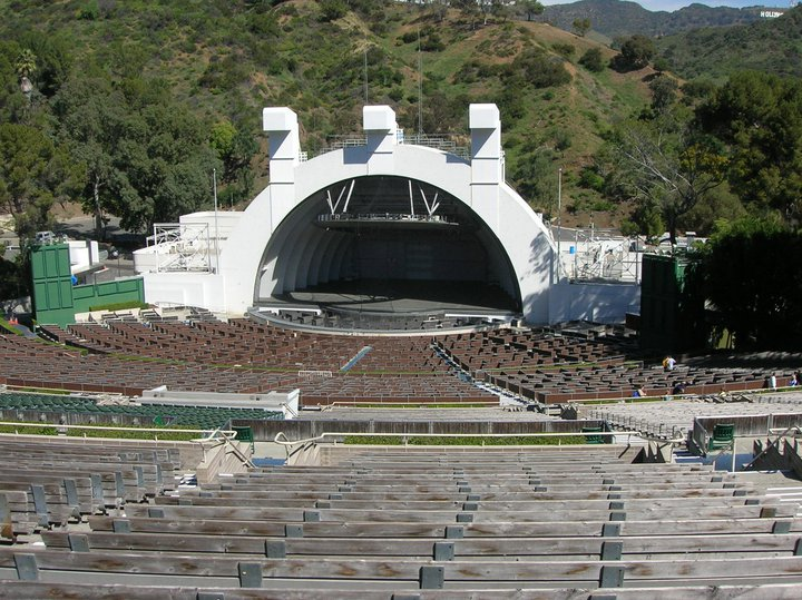 Picture of the Hollywood Bowl from the far right in the stage.